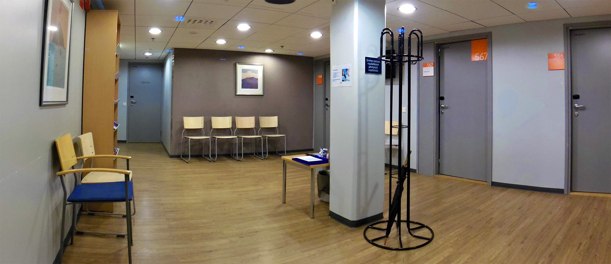 A waiting room in Terveystalo healthcare facility, Jyväskylä.